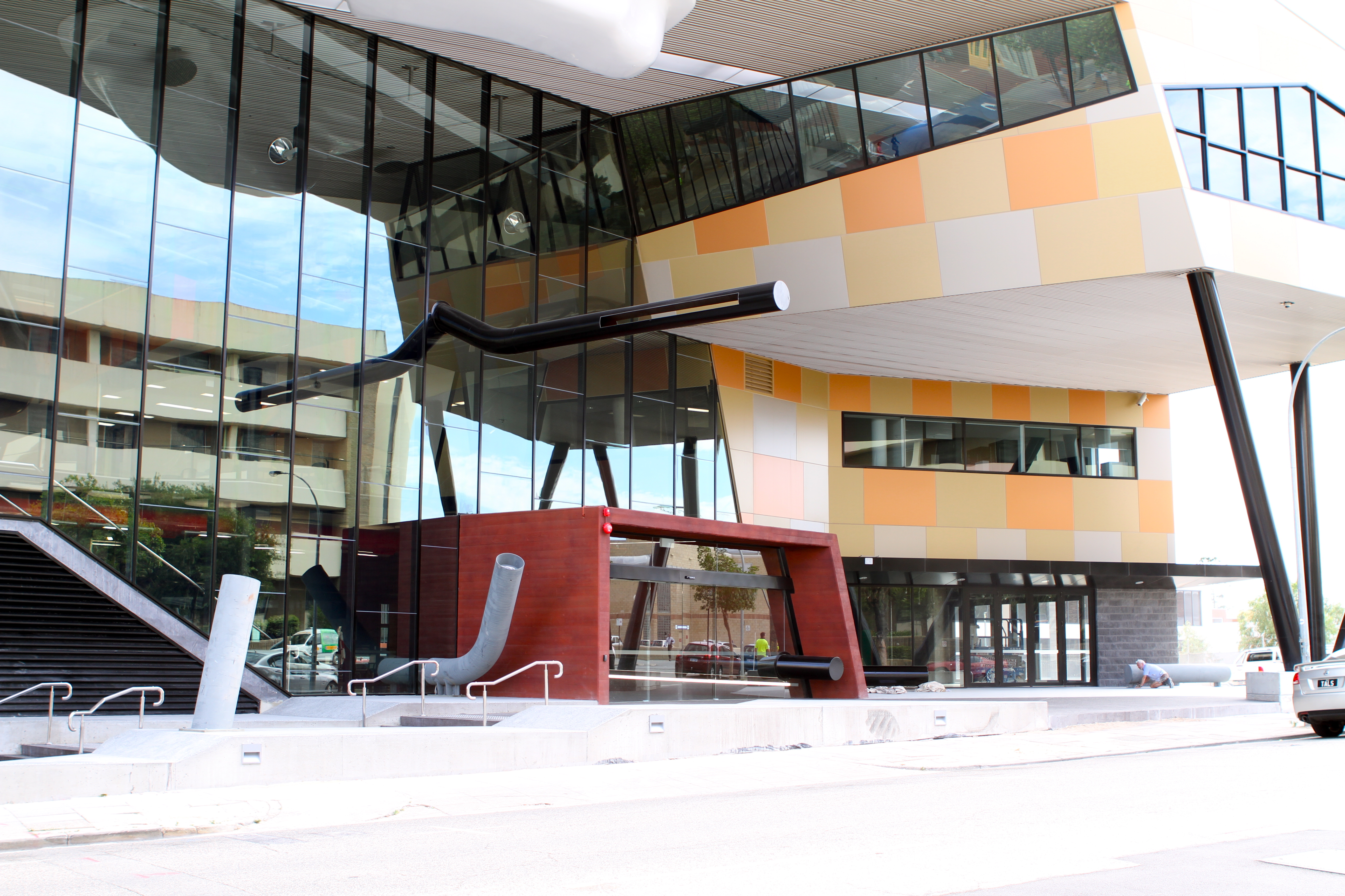 30 Aberdeen St, Northbridge